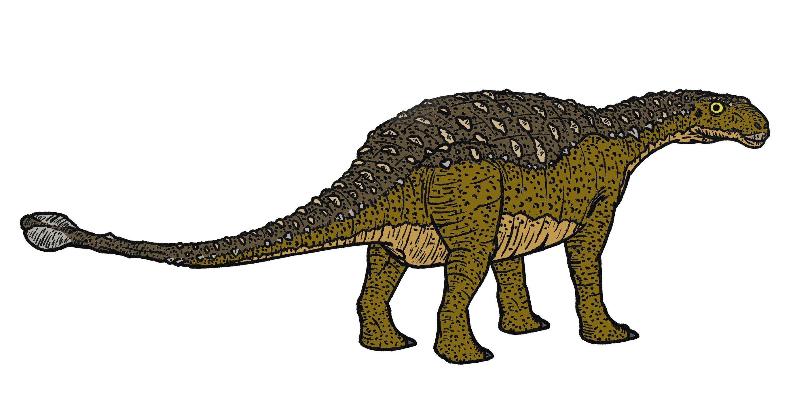 Talarurus, an ankylosaurian dinosaur from Gobi desert, dated to the late cretaceous, 84 MYA.